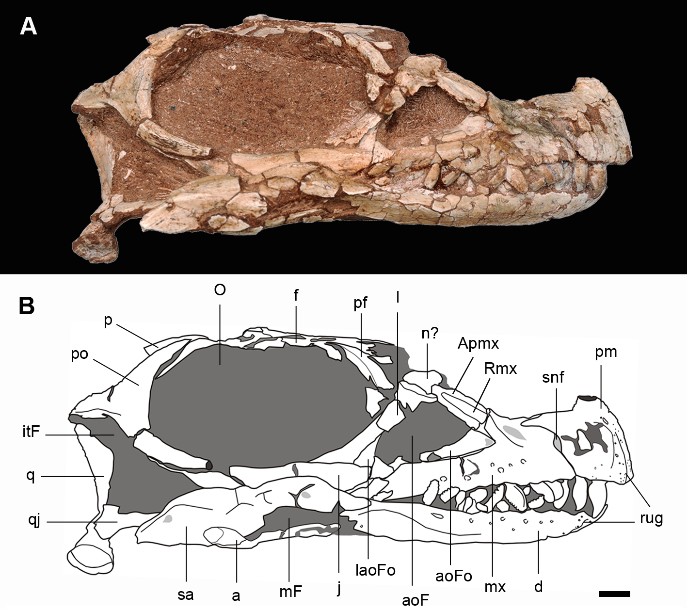 Skull of the new basal sauropodomorph Leyesaurus marayensis (PVSJ 706). Photograph of the skull (A) and interpretative drawing (B) in lateral view. Dark grey color represents matrix and light grey color represents foraminae. Abbreviations: a, angular; aoF, antorbital fenestra; aoFo; antorbital fossa; Apmx, ascending process of the maxilla; d, dentary; f, frontal; itF, infratemporal fenestra; j, jugal; l, lacrimal; laoFo; lacrimal antorbital fossa; mF, mandibular fenestra; mx, maxilla; n, nasal; O, orbit; p, parietal; pf, prefrontal; pm, premaxilla; po, postorbital; rug, platform-like rugosities; q, quadrate; qj, quadratejugal; Rmx, ridge of the ascending process of the maxilla; sa, surangular; snf, subnarial foramen. Scale bar equals 1cm.